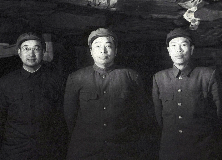 Peng Dehuai with Chen Geng (left), Deng Hua (right) taking group portrait at the front line command post. 彭德怀与陈赓（左）、邓华（右）在前线司令部合影。